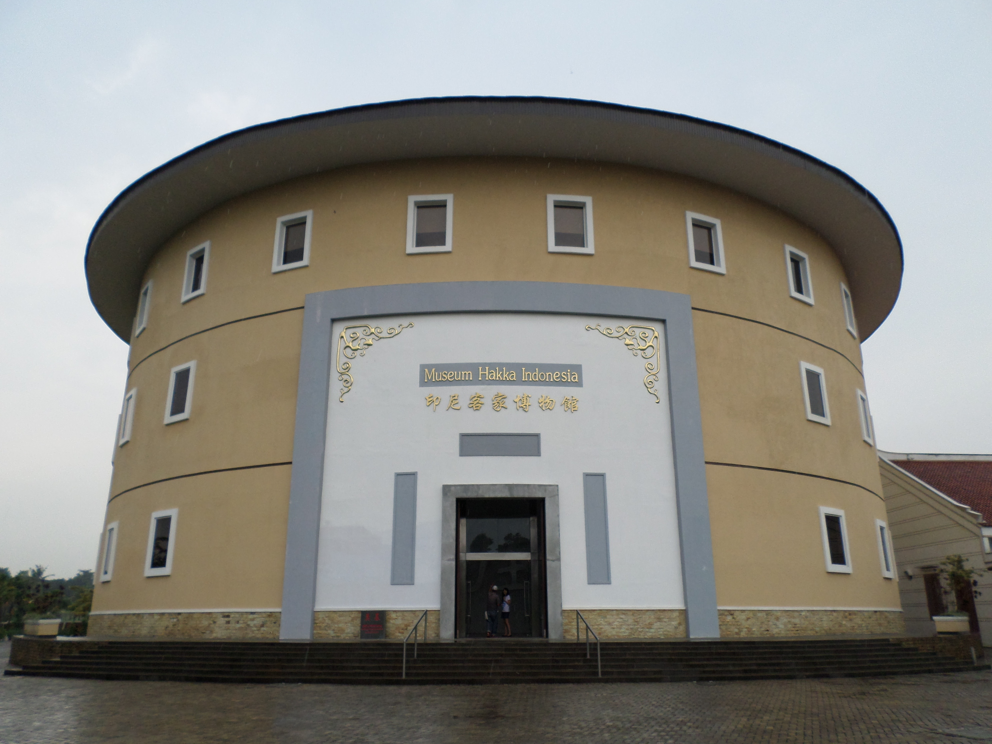 Indonesian Hakka Museum, Beautiful Indonesia Miniature Park, Jakarta, IndonesiaBahasa Indonesia: Museum Hakka Indonesia, Taman Mini Indonesia Indah, Jakarta, Indonesia